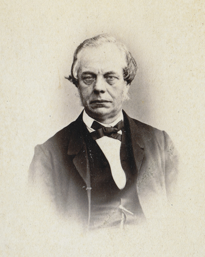 Wesley Stoker Barker Woolhouse, mathematician